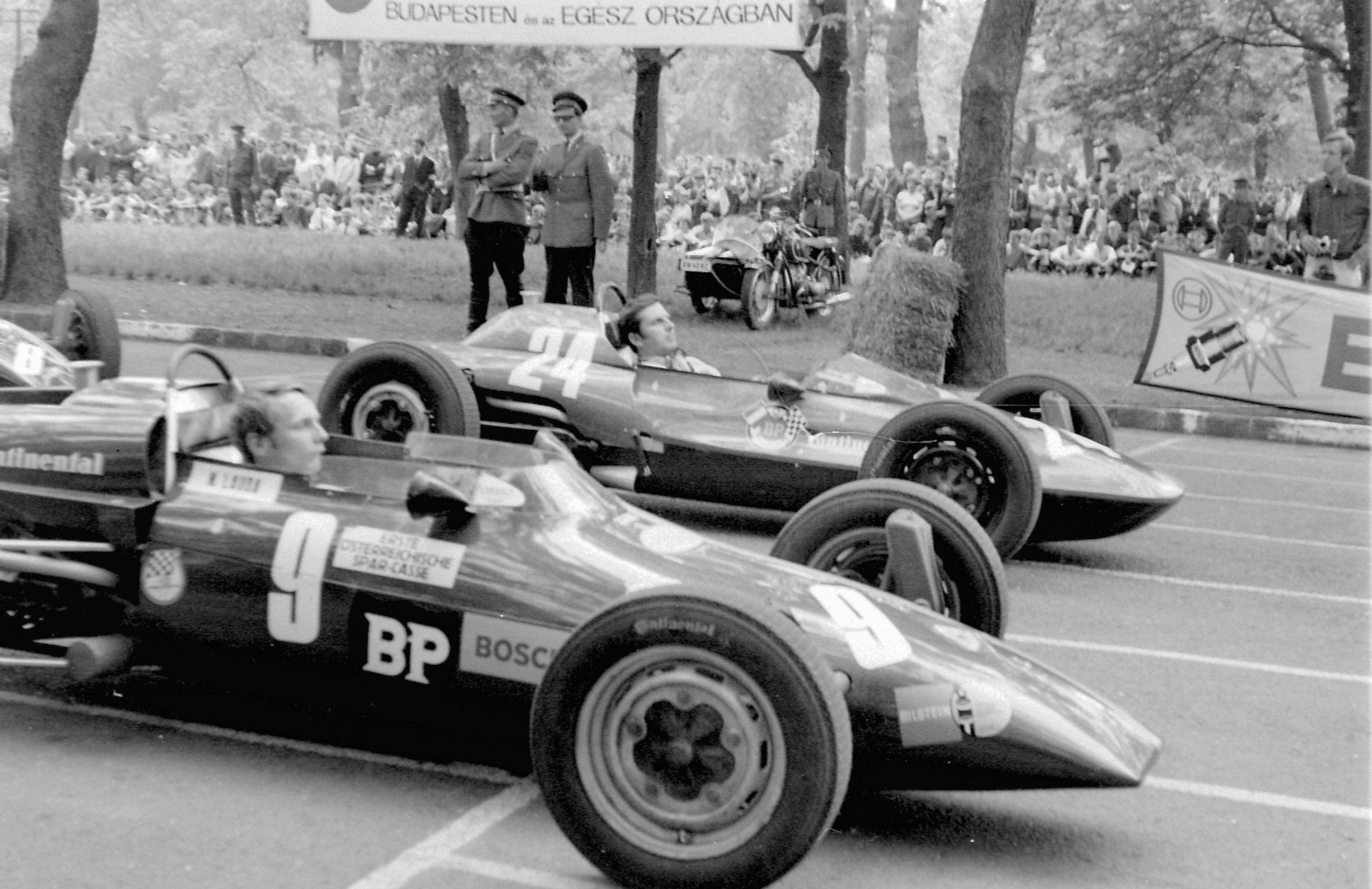 Niki Lauda is an Austrian former Formula One driver